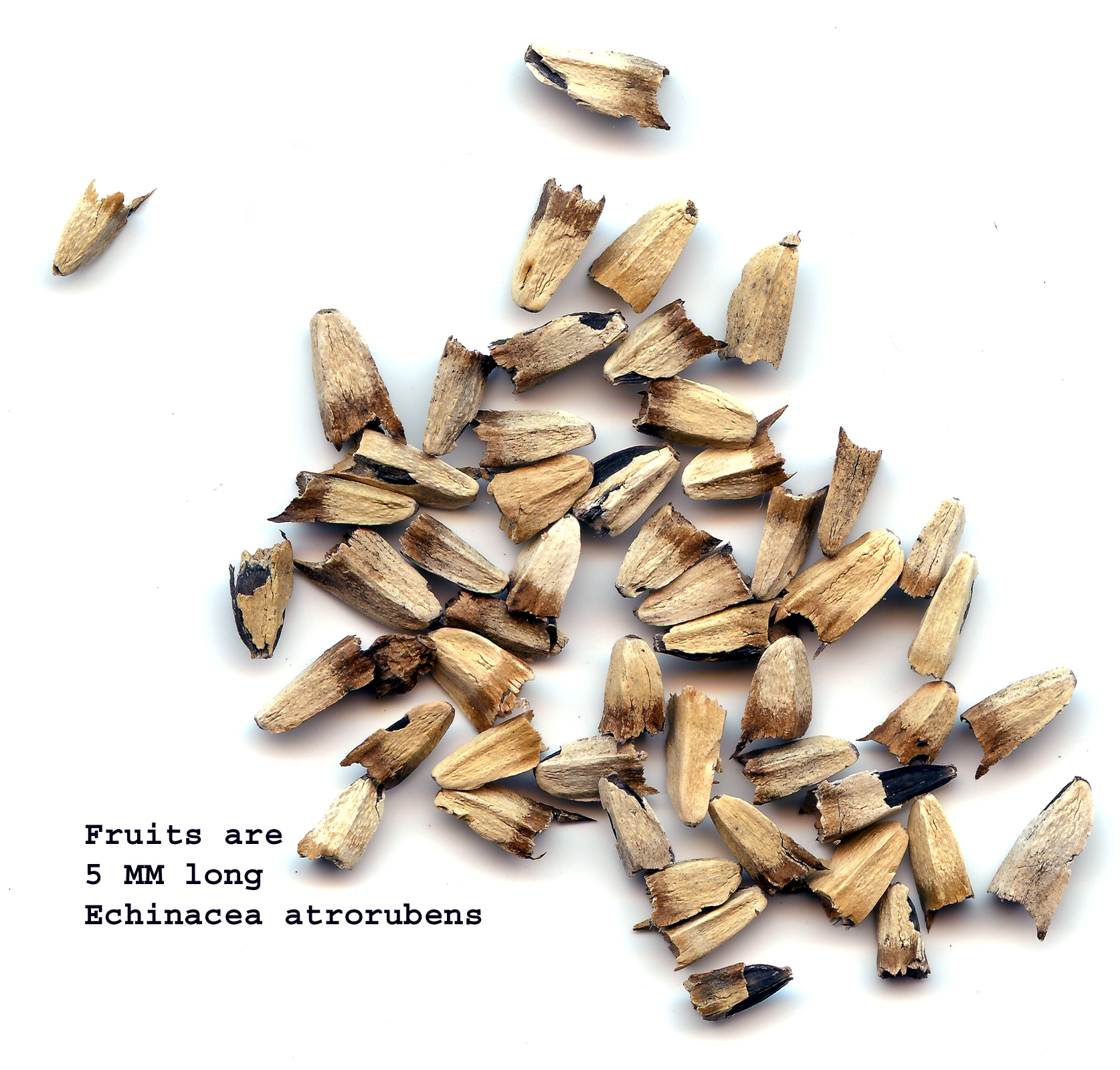 seeds/fruits of Echinaceae atrorubens